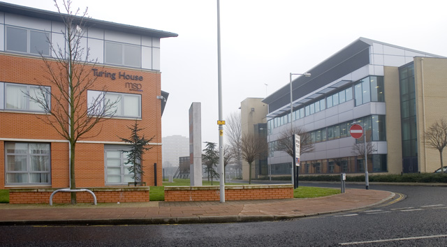 Turing House Part of the Manchester University Science Park. Taken at the junction of Archway and Phoenix Way.